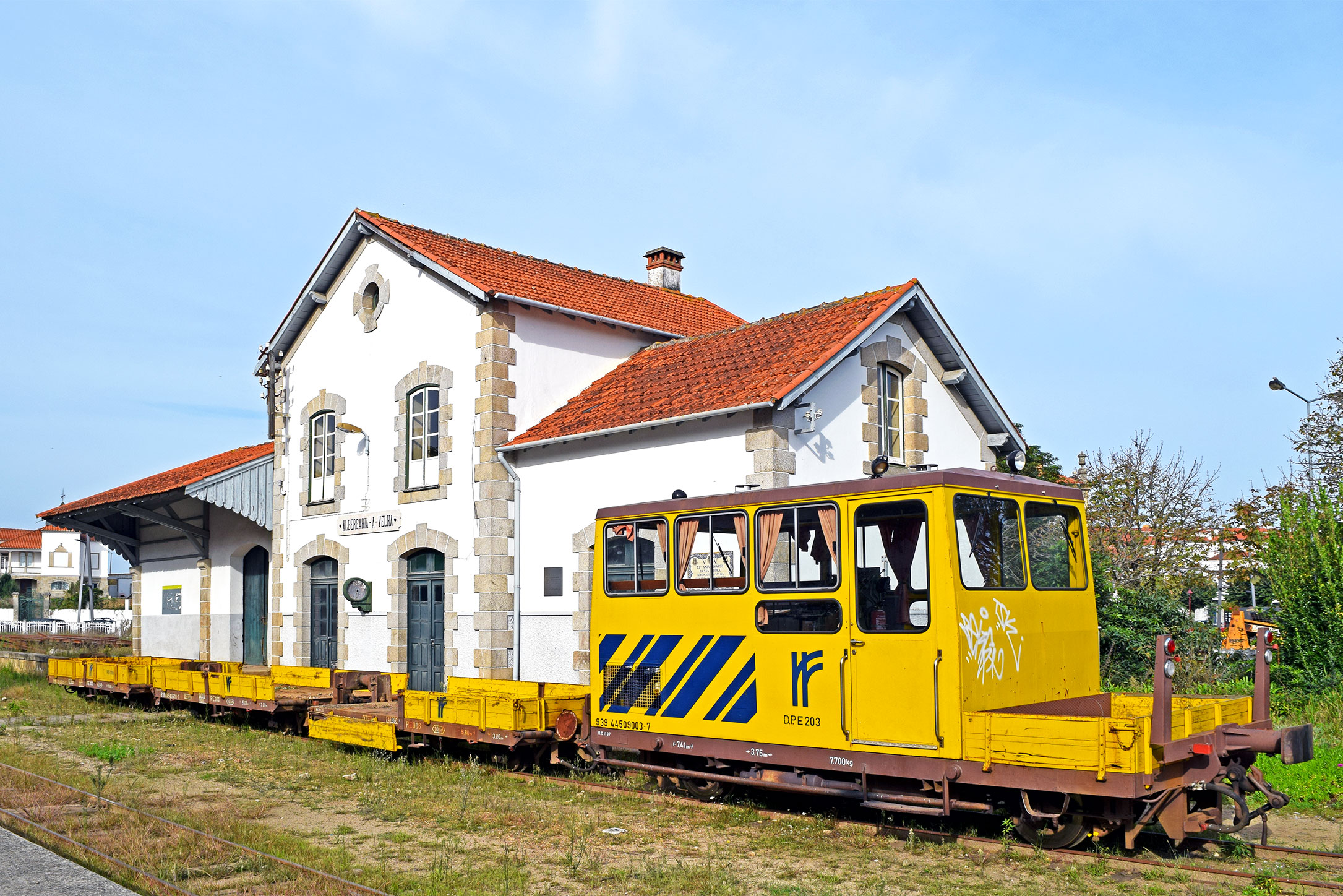 Albergaria-a-Velha train station (Vouga line), Portugal